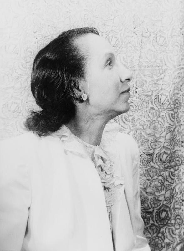 Portrait of Shirley Graham (1896-1977), later Shirley Graham Du Bois, by Carl Van Vechten, taken July 18, 1946.